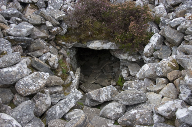 Entrance to Barpa Langass Chambered Cairn